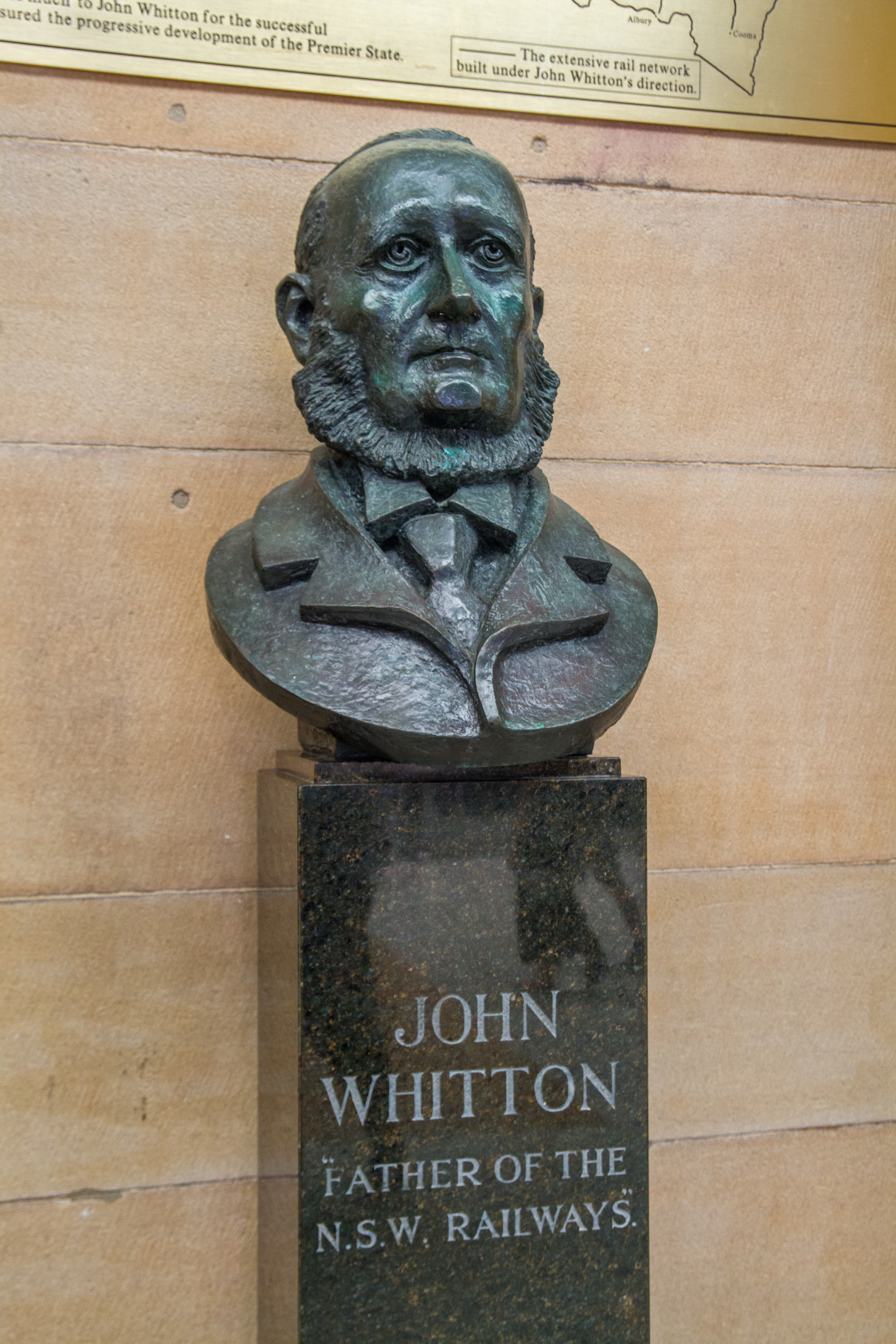 John Whitton bust at Central station, Sydney